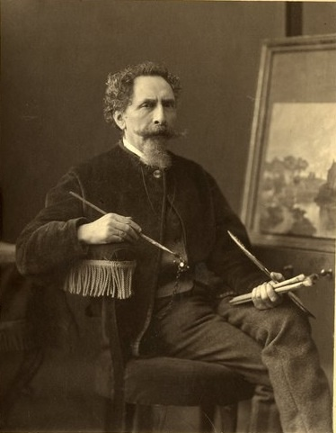 Salomon Leonardus Verveer